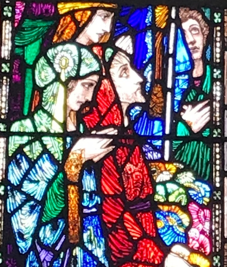 Designed for the Chapel of the Sacred Heart, in Dingle, County Kerry, Ireland